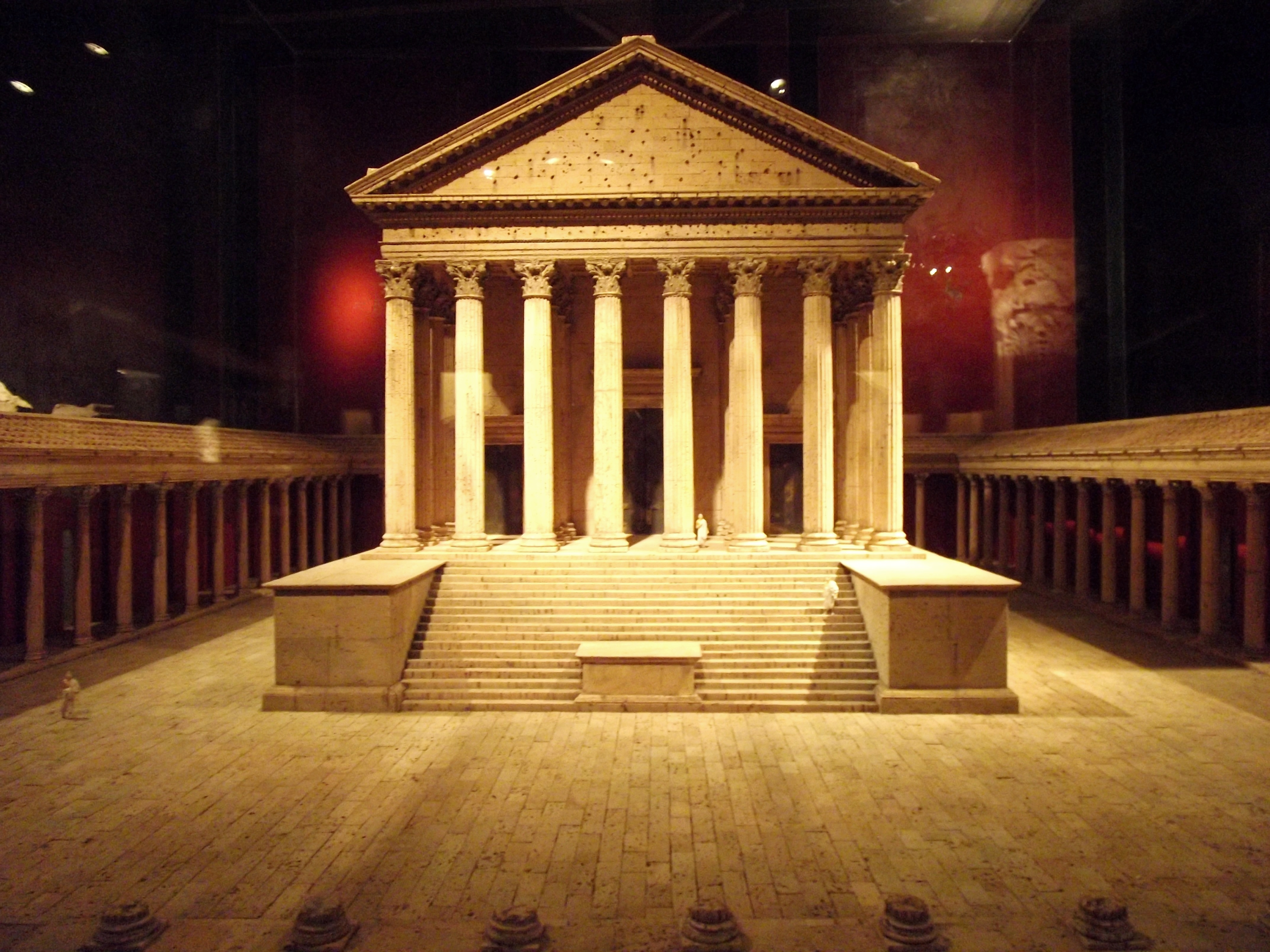 Front view of a model of the Cologne Capitol at Cologne Archaeological Zone, model built by Atelier Dieter Cöllen GmbH (2008) The Temple of the Capitoline Trias has been erected in the south-eastern corner of the city - likely under the emperors Trajan (98-117) or Hadrian (117-138). The foundations of the temple are mostly preserved under the later Romanesque church of St. Maria im Kapitol.